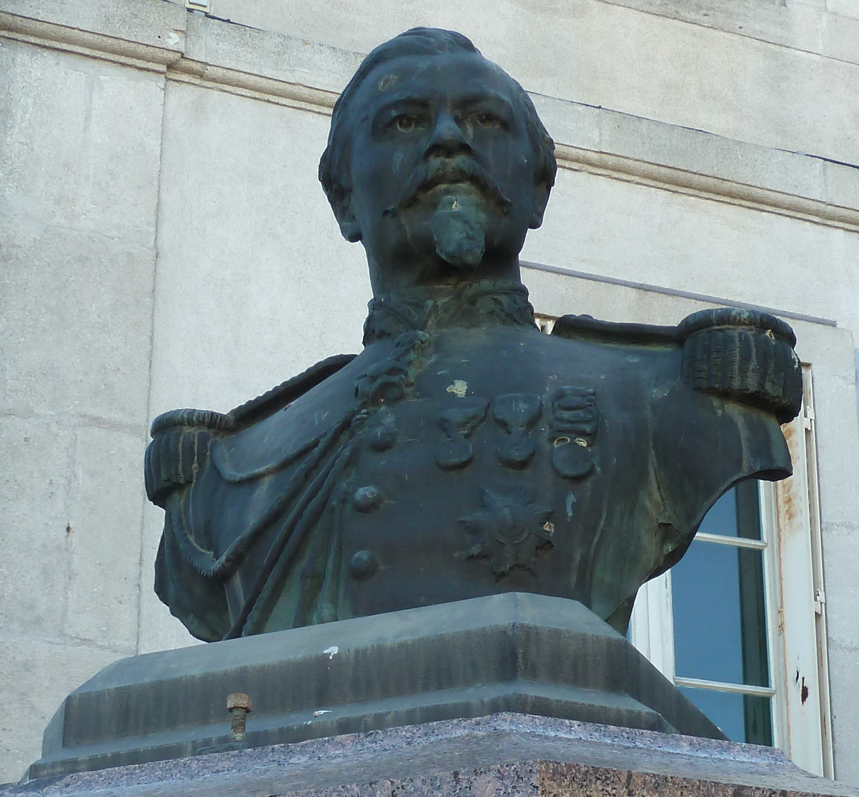 Bust of Joseph Emile Colson in St-Aubin-sur-Aire (Meuse, France)